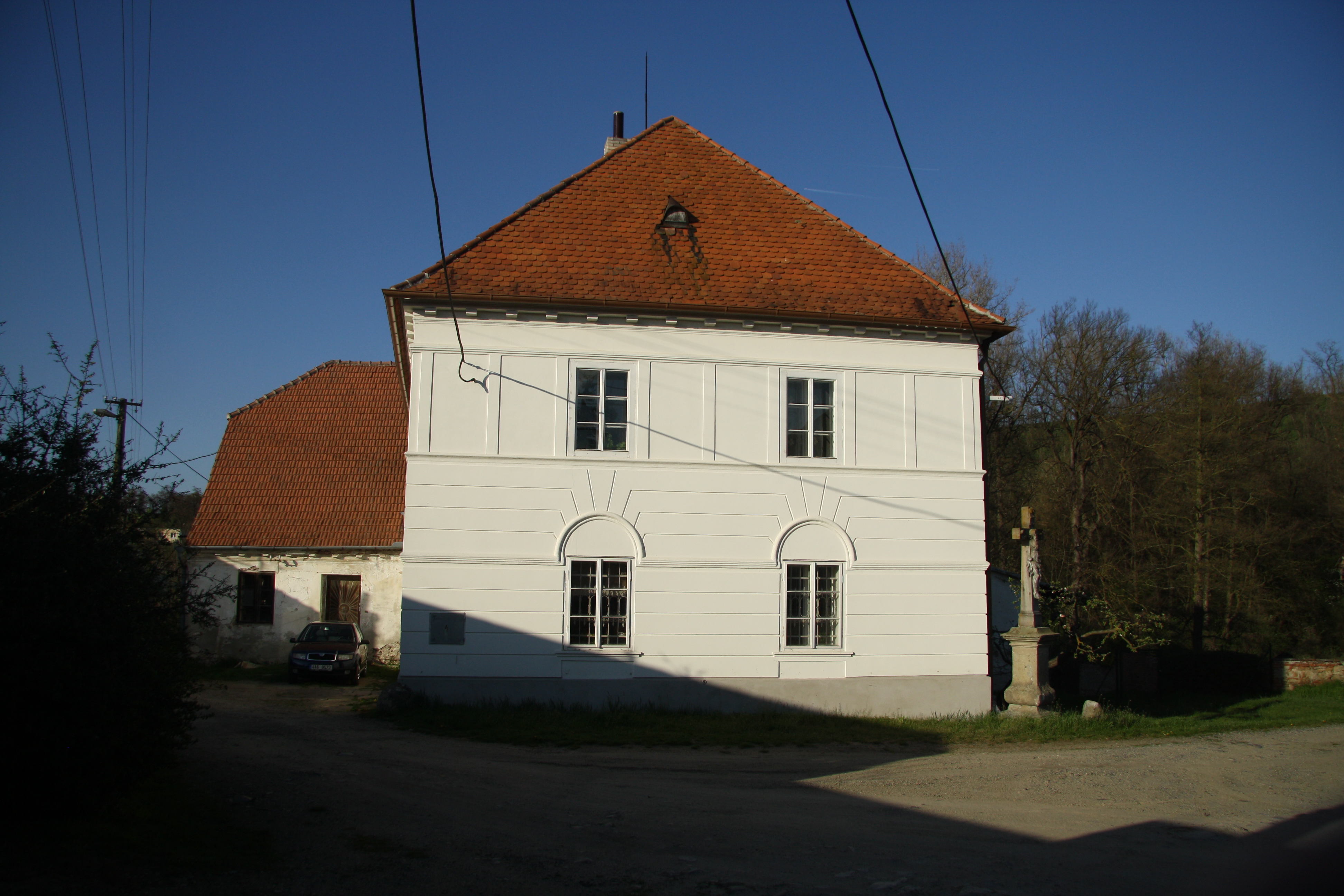 Overview of Mill Hrubšice 13 in Hrubšice, Ivančice, Brno-Country District.